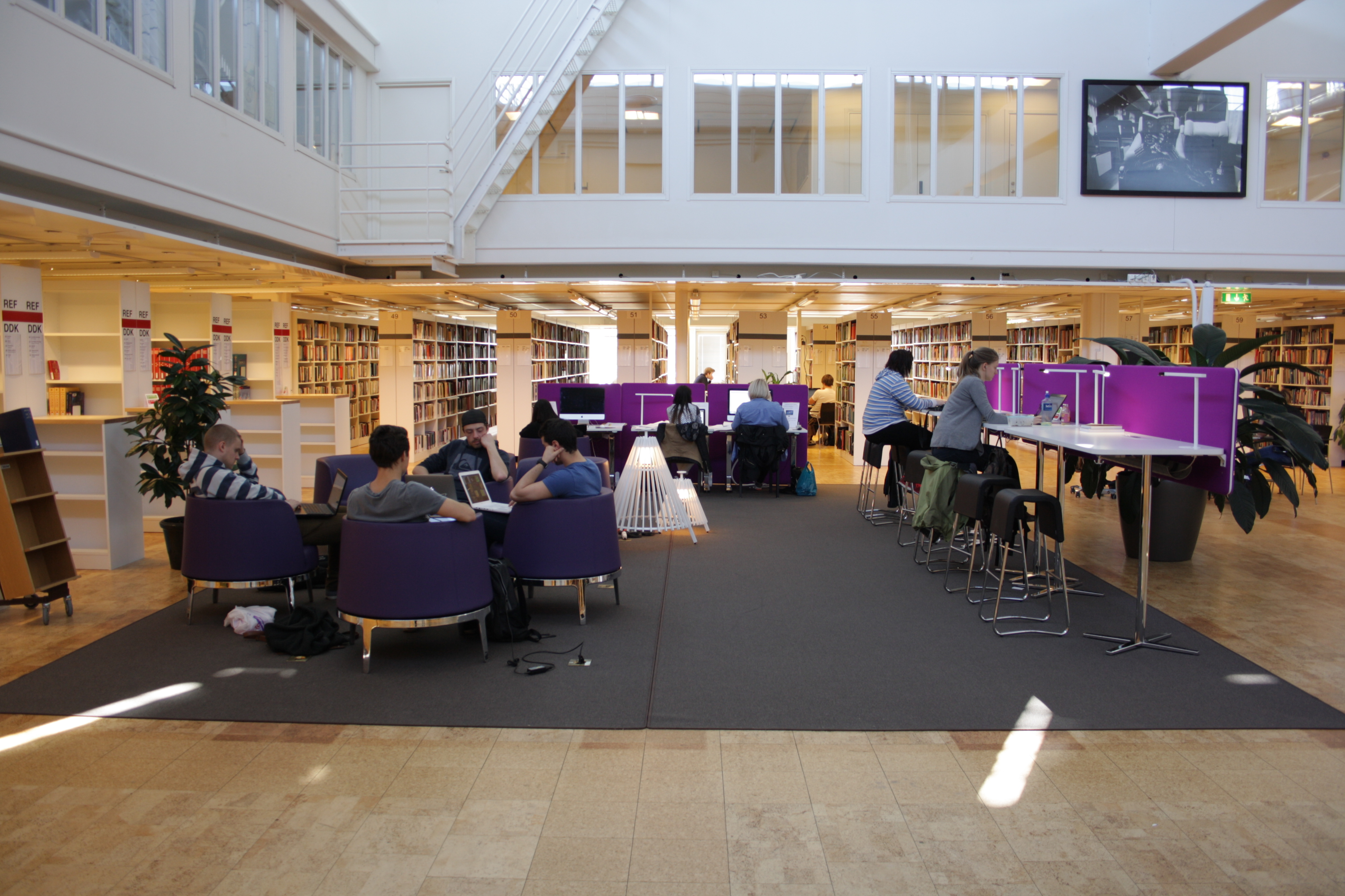 Umeå University Library's Reference Area